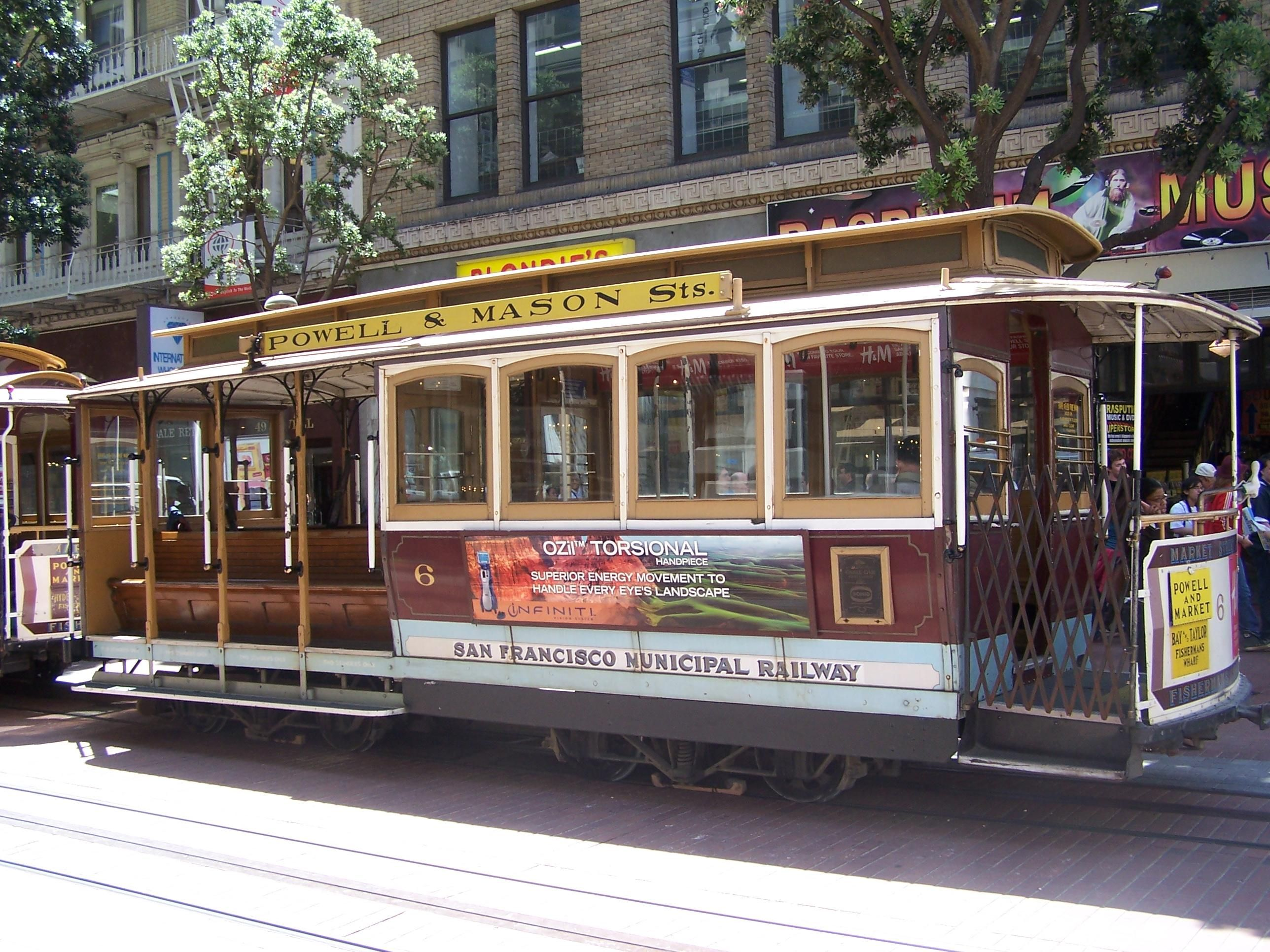 Image title: Cable car in San Francisco Image from Public domain images website